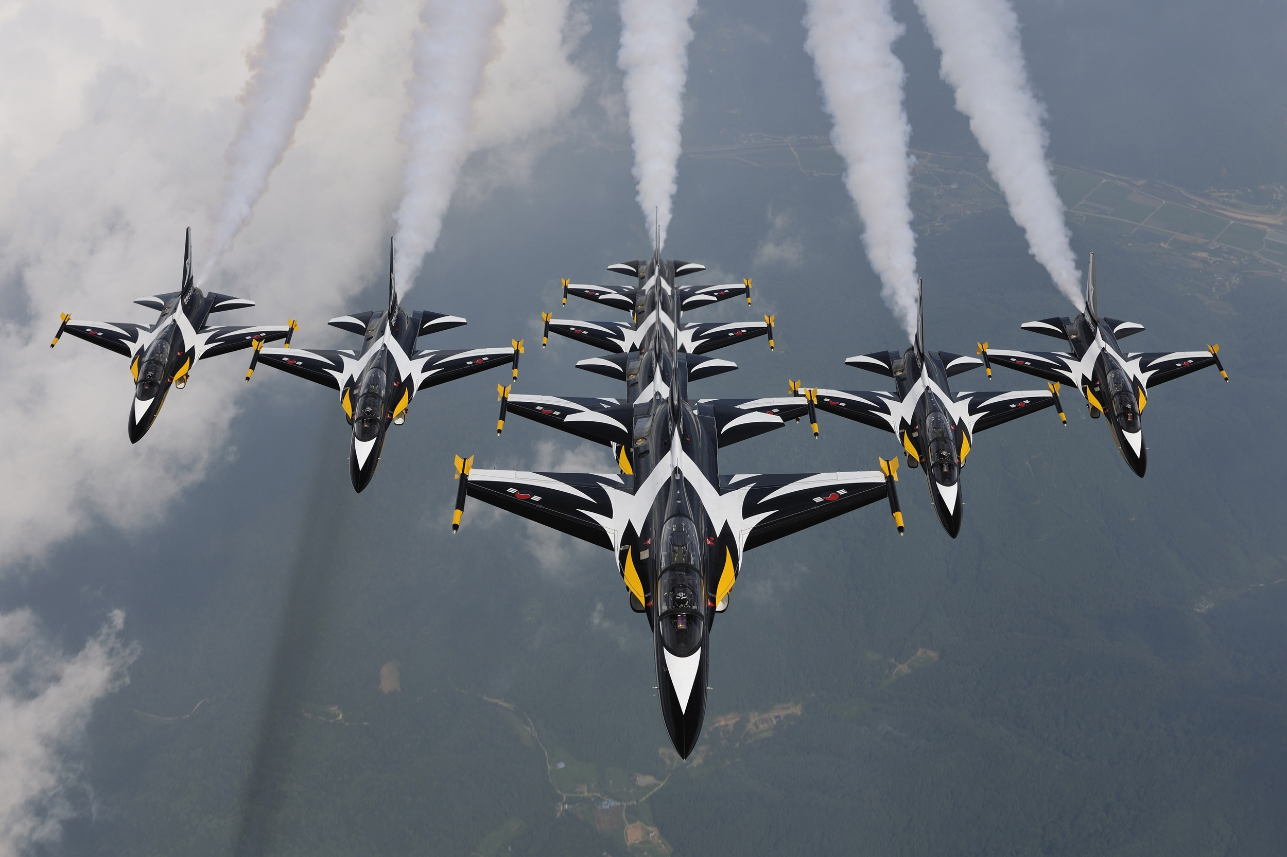 T-50B Blackeagles Aerobatic team / Air to Air shot during airshow / Photo by Dokunaga (2011)